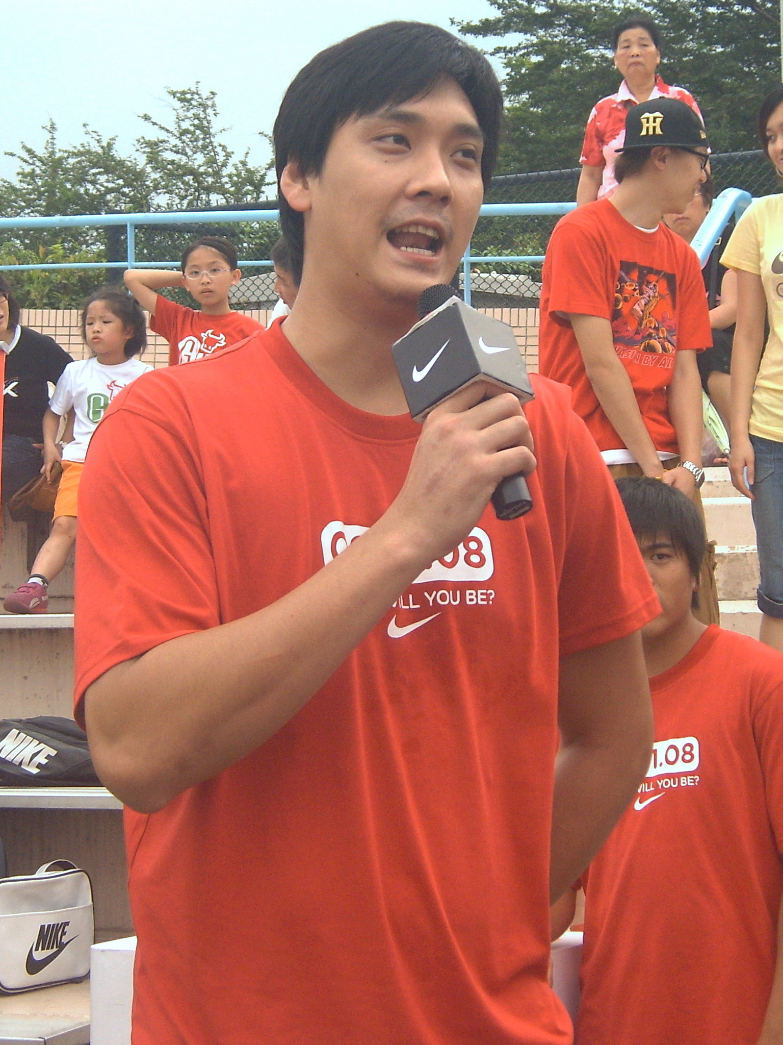 2008 Nike Plus Human Race in Taipei: Lei Tien, basketball player from Taiwan, participated in the Training Run Event in Hsinchuang, Taipei County.Bân-lâm-gú: 2008 Nike Tsuân-kiû lōo-pháu (Human Race) tī Tâi-pak: Tiân-luí, Tâi-uân ê nâ-kiû tuī-guân, tsham-ka tī Tâi-pak-kuān Sin-tsng-tshī ê hùn-liān ua̍h-tōng. 2008 Nike全球路跑佇台北市：田壘，臺灣的籃球隊員，參加佇台北縣新莊市的訓練活動。